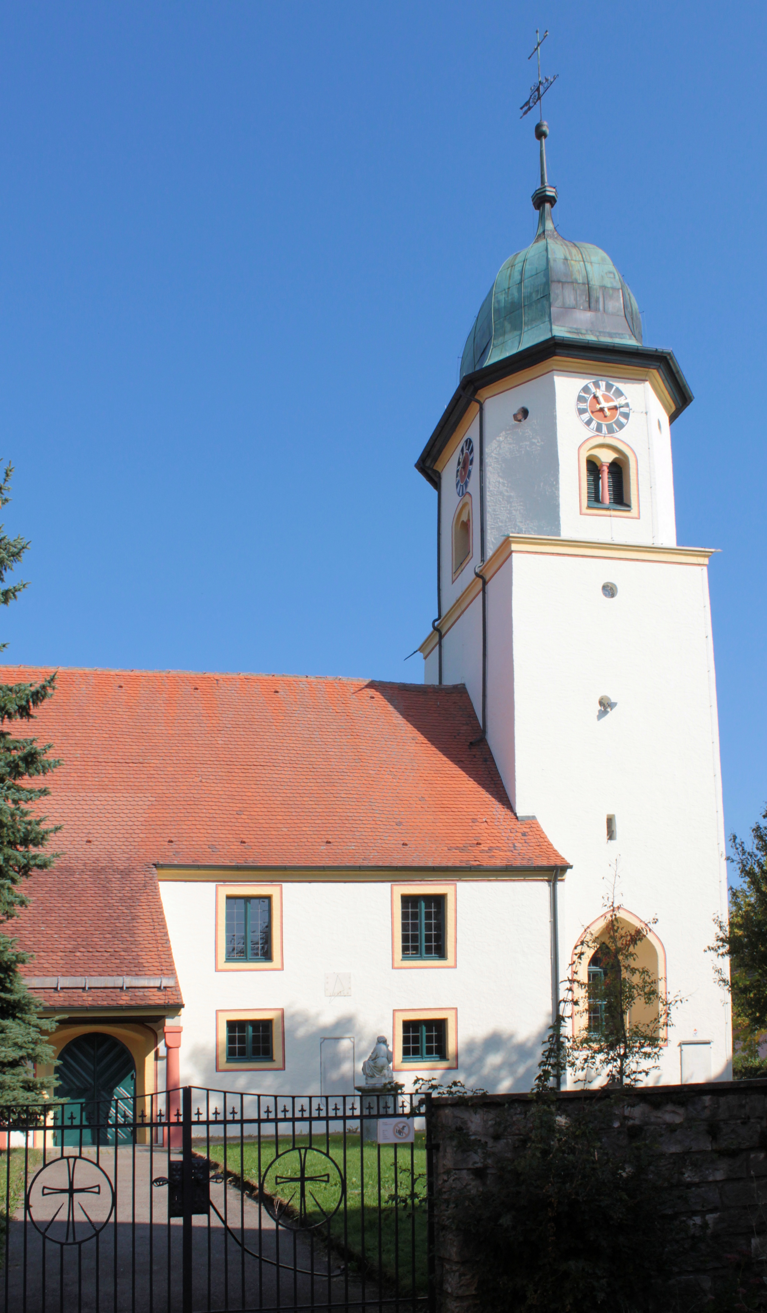 Southern front of the St. Willibald church in Langenaltheim, Landkreis Weißenburg-Gunzenhausen, Bavaria, Germany